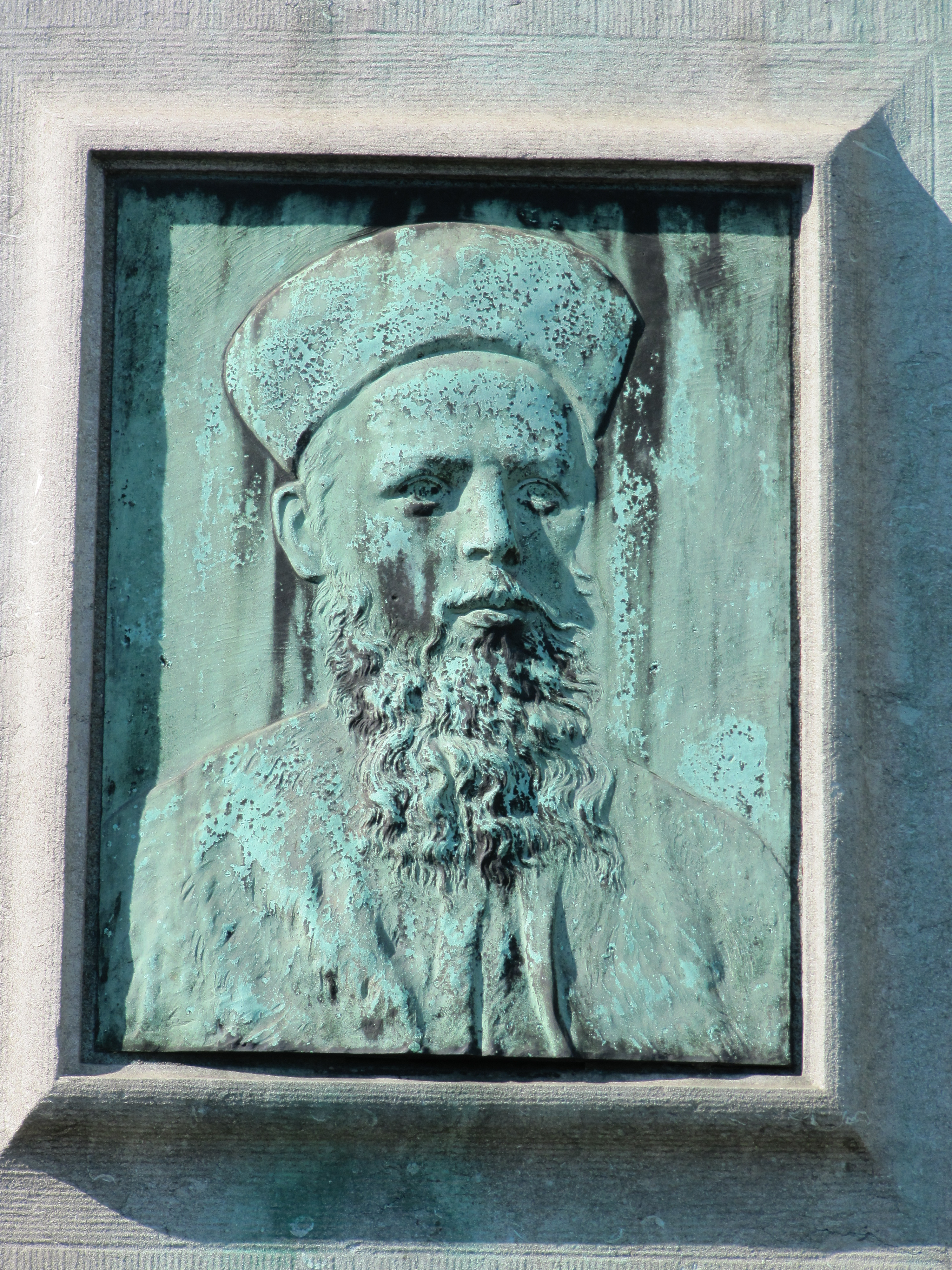 Relief of Gijsbertus Jaspers at the base of the statue of bishop Ferdinand Hamer by Bart van Hove in the Bisschop Hamerstraat in Nijmegen, The Netherlands